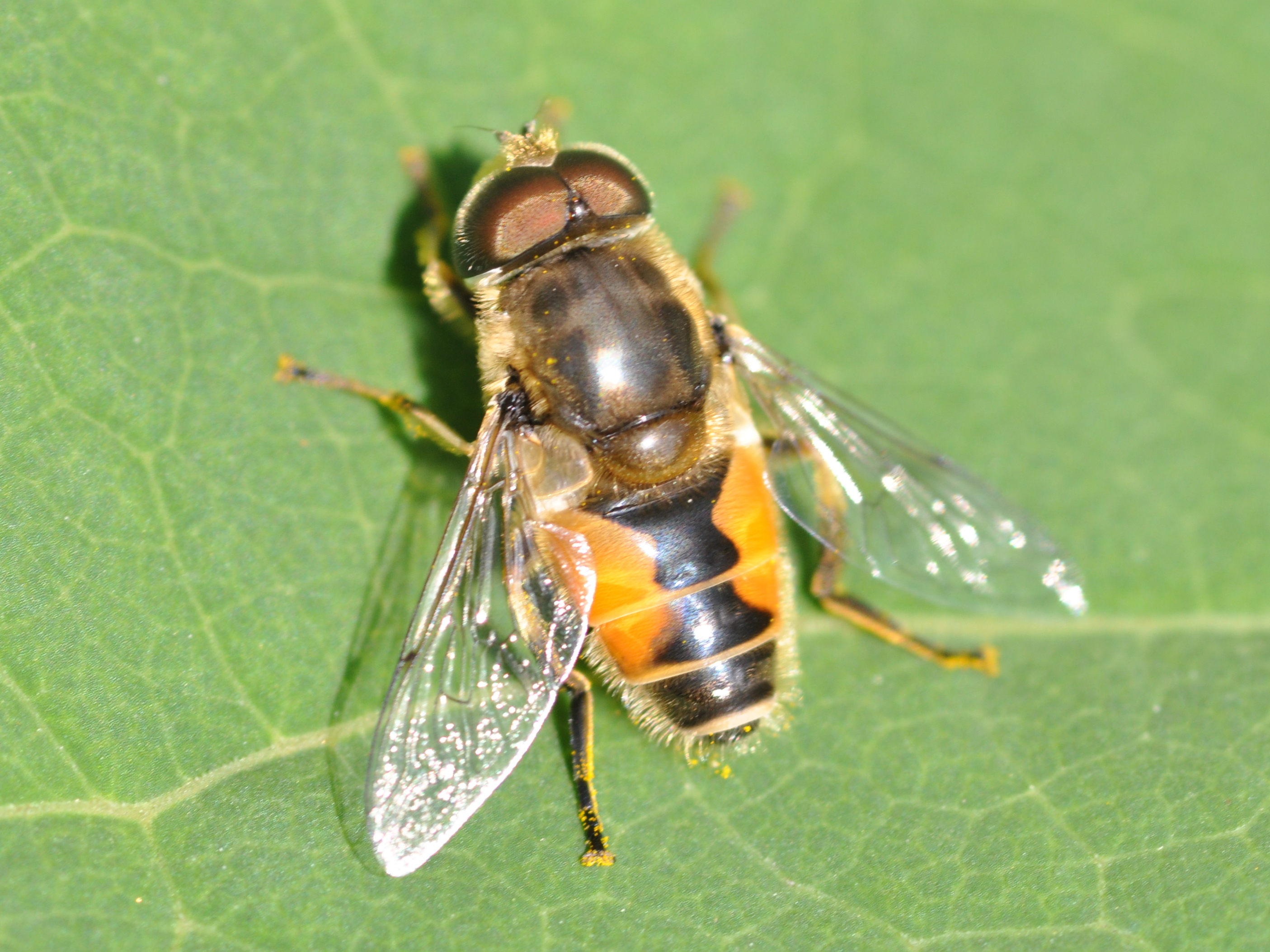 Hoverfly Eristalis arbustorum male in Bahrenfeld, Hamburg.